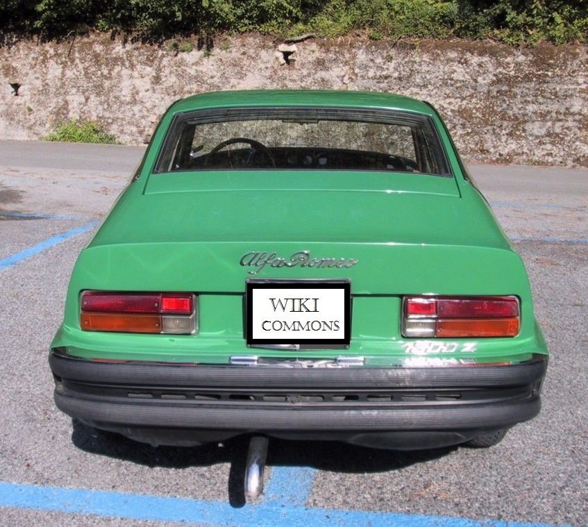 Alfaromeo 1600Z, AR Junior zagato 1600, 1973 (Back with original silencer)